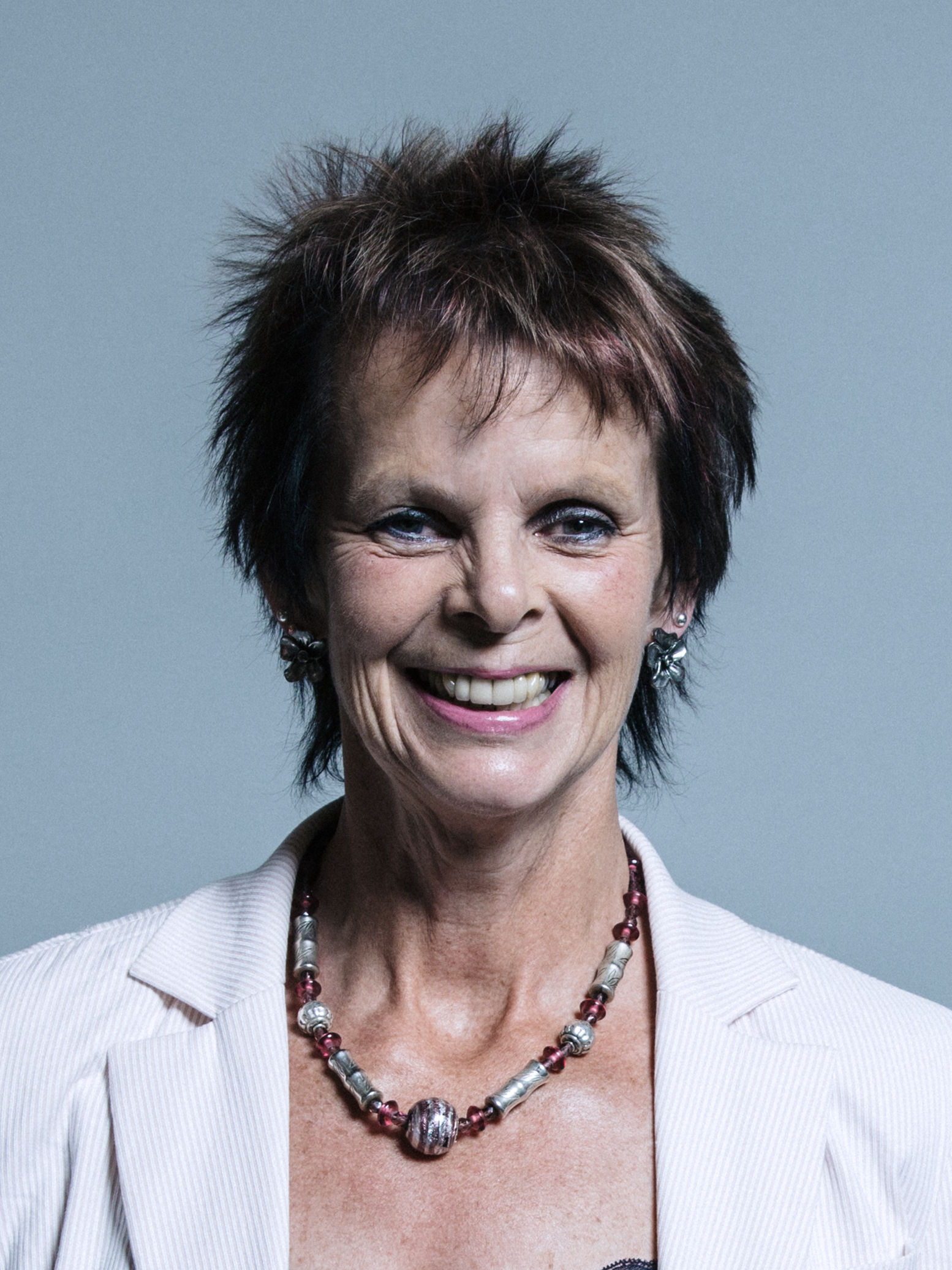 Official portrait of Anne Milton